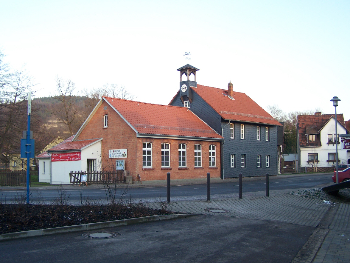 The old school house in Eichrodt village.